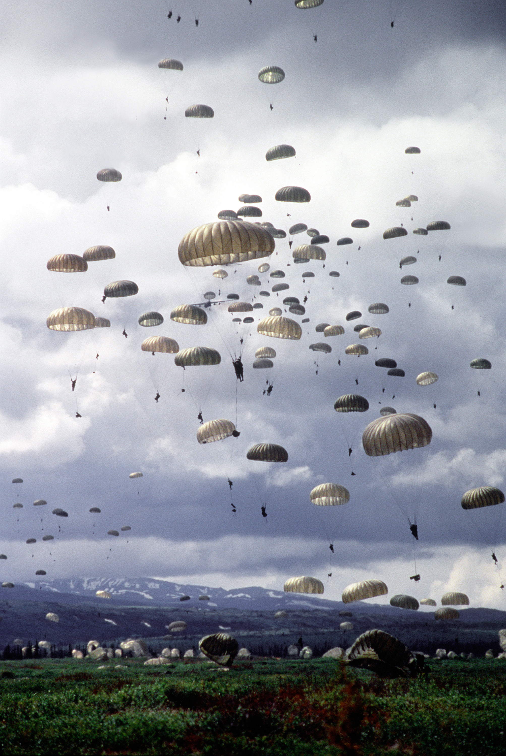 Floating on mushrooming green parachutes, members of the 1st Battalion Airborne, 501st Infantry, Fort Richardson, Alaska, pepper the sky in their careful descent over Donnelly Drop Zone. U.S. Army photo by Staff Sgt. Marlene S. Barry.